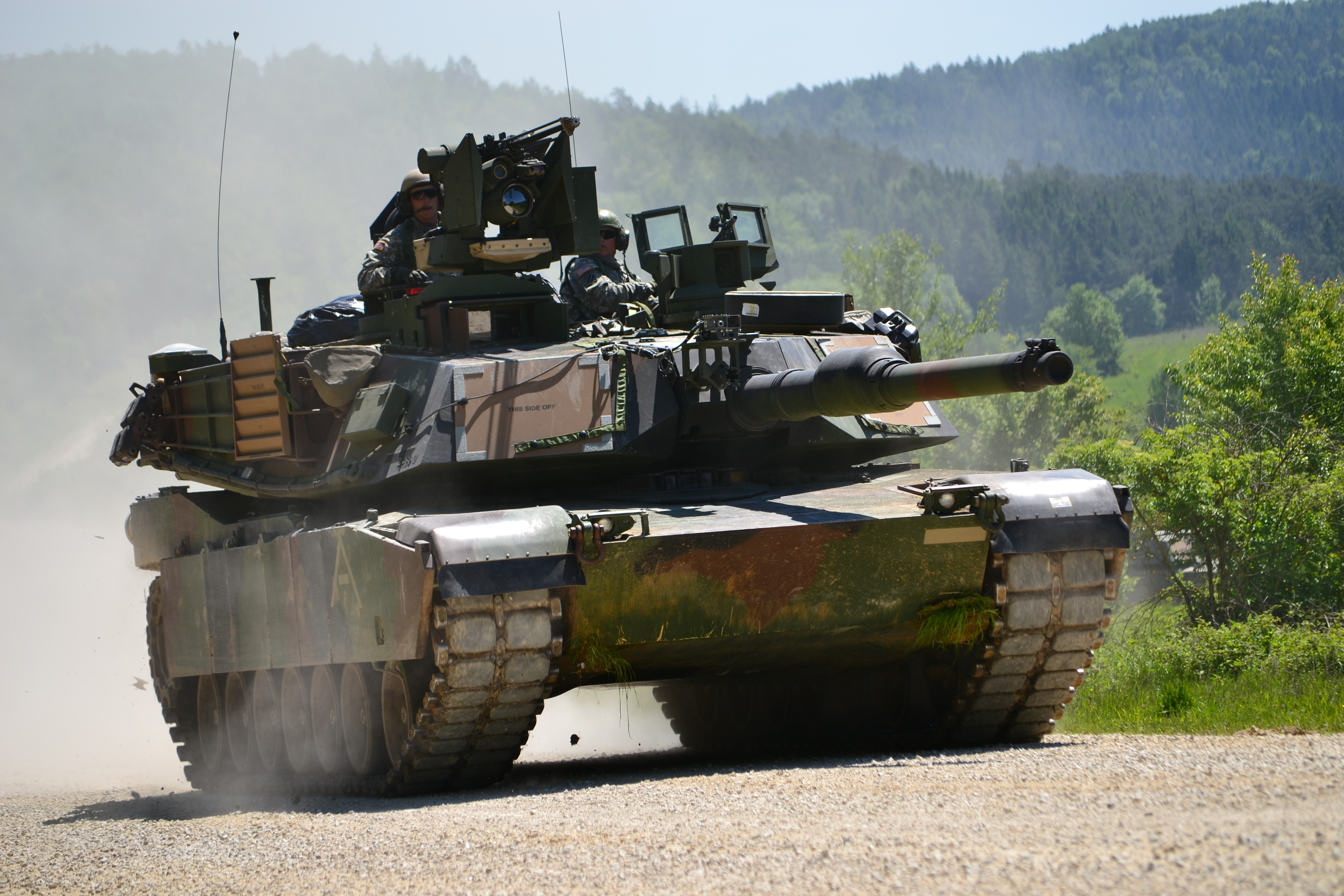 M1A2 tanks at Combined Resolve II